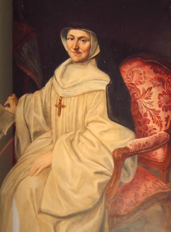 Marie Alexandrine Snoy, abbess of la Cambre Abbey from 1757 to 1794